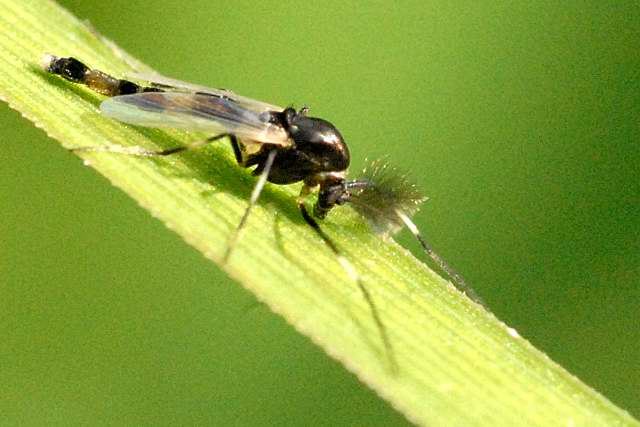 Cricotopus trifasciatus from Commanster, Belgian High Ardennes .